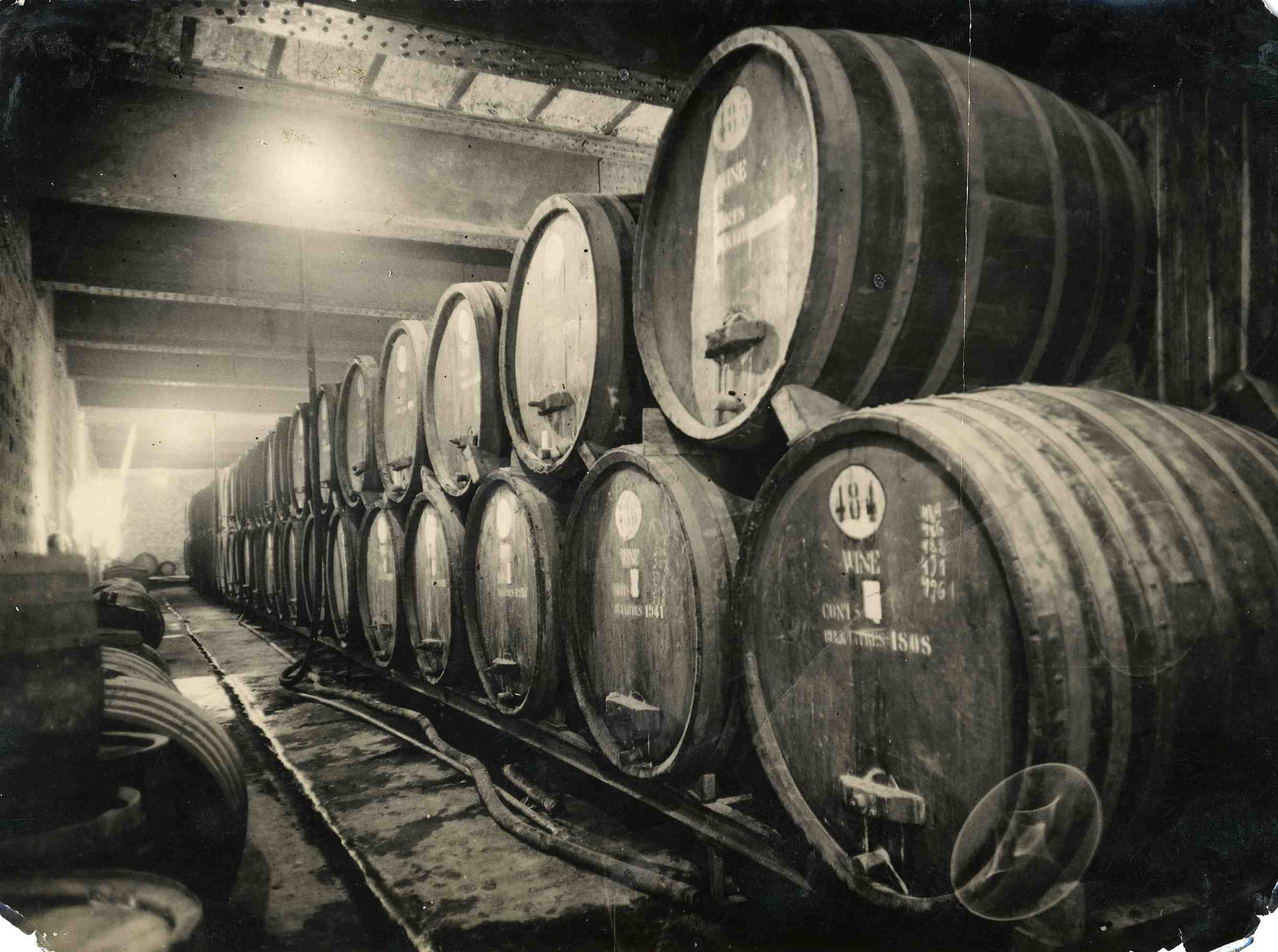 winery cellar In Rishon le\'zion